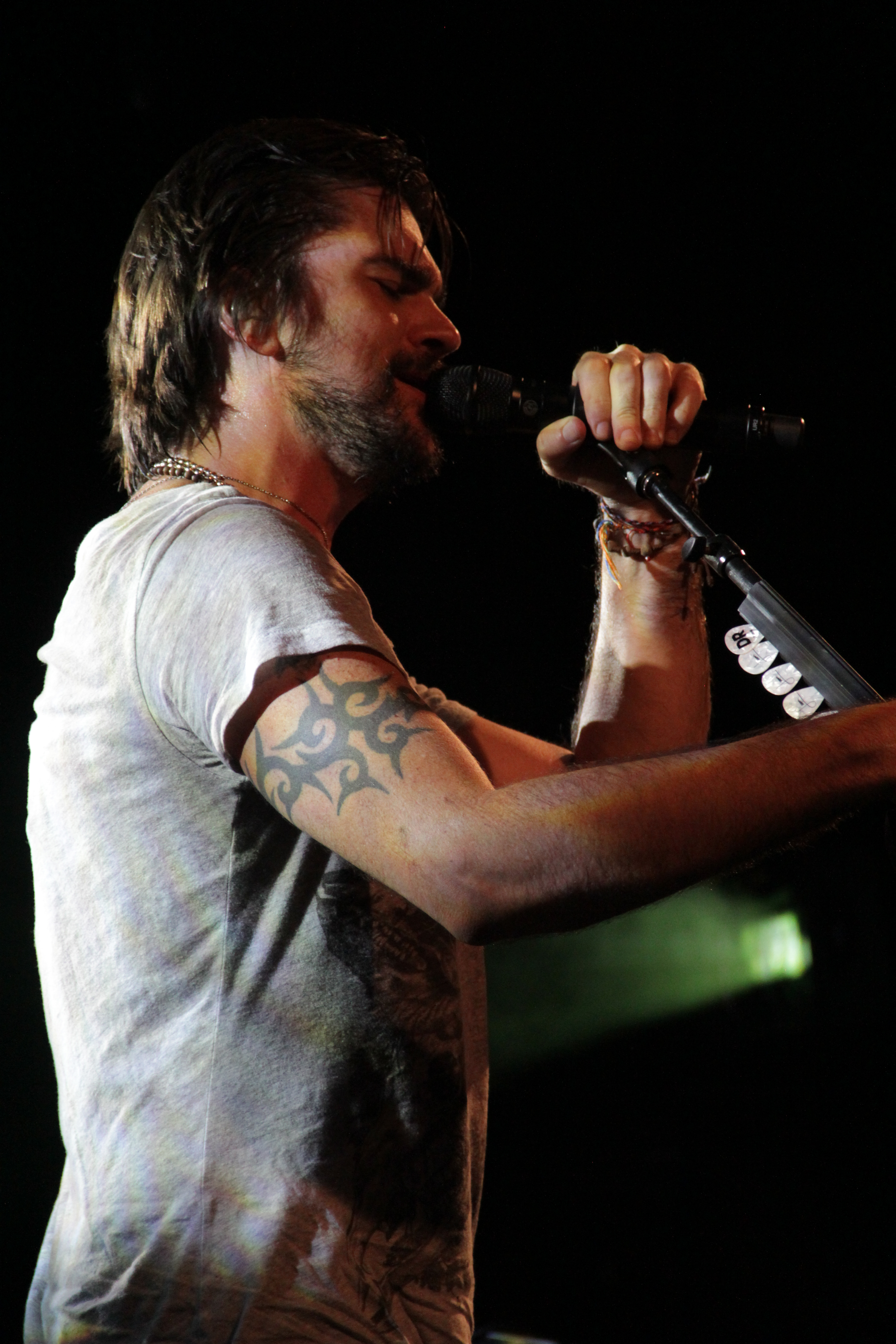 Juanes performing live in Amsterdam